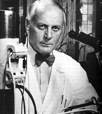 Finnish Nobelist Ragnar Granit in ca. 1956.